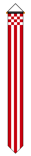 Wimpel van Noord-Brabant - Pennant of the Dutch province of North-Brabant - own work -- Quistnix 08:42, 11 November 2005 (UTC)